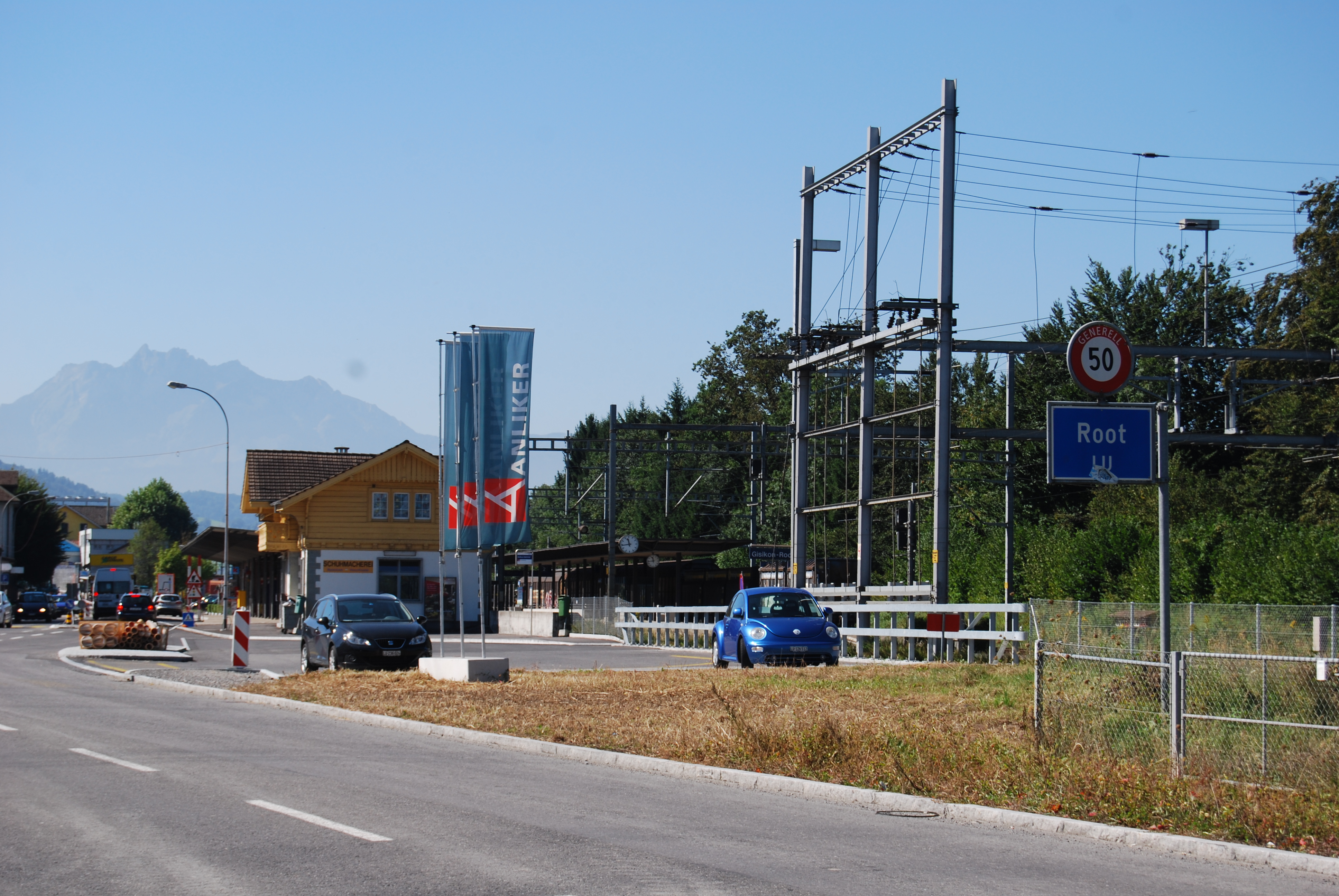 Train station of Root, canton of Lucerne, Switzerland